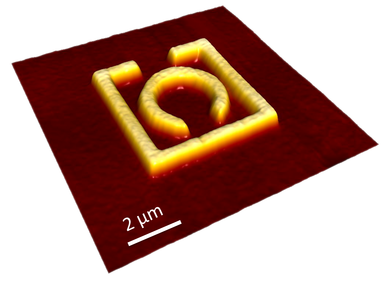 AC mode AFM image of gold metastructure on silicon fabricated with top-down DPN methods.